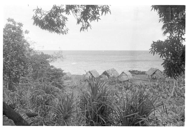 Houses (fale) on the beach at Futu village, abandoned, used on boat days, on Niuafoʻou island, Tonga (1967)